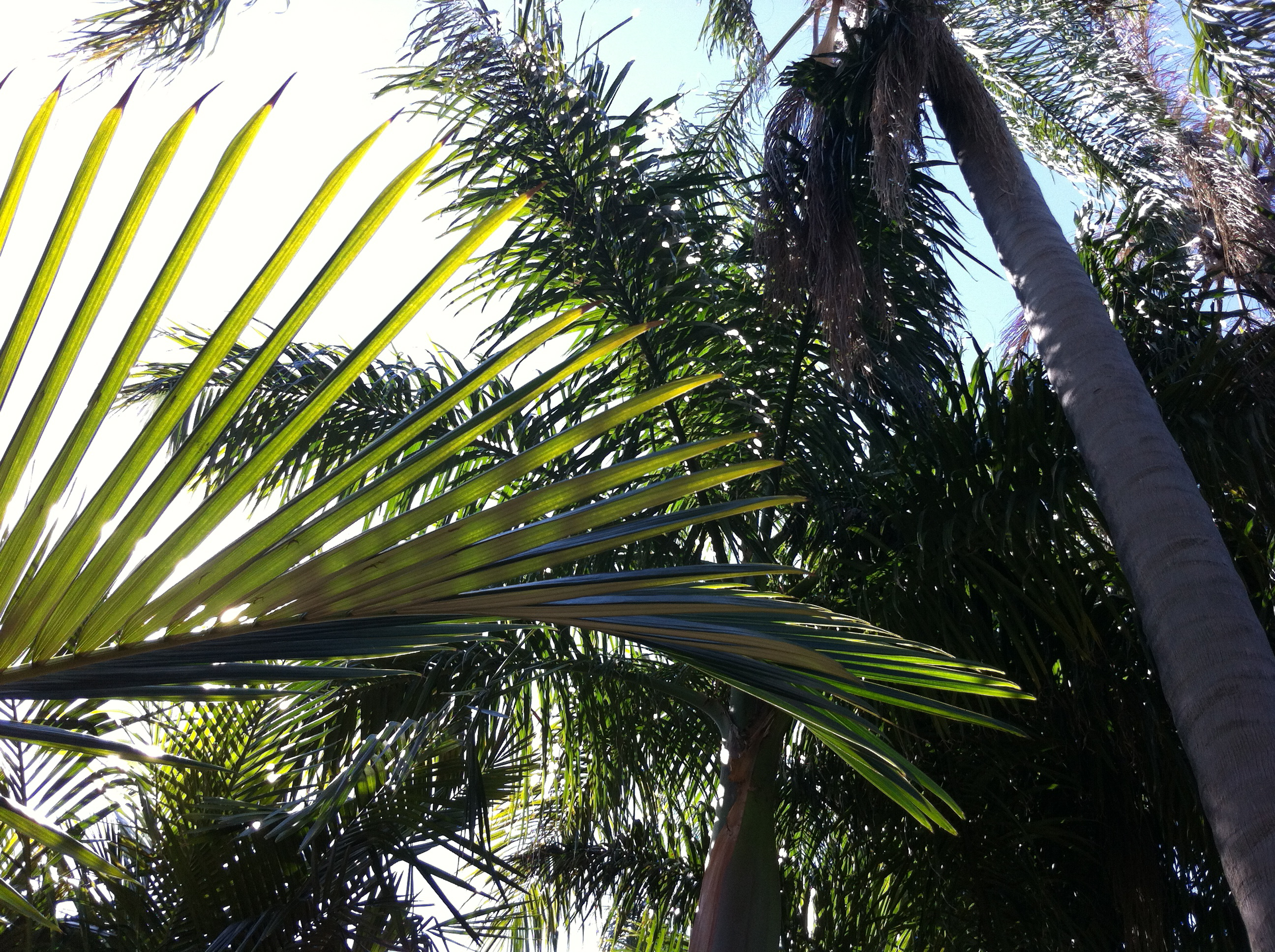 Gizella Kopsick Palm Aboretum